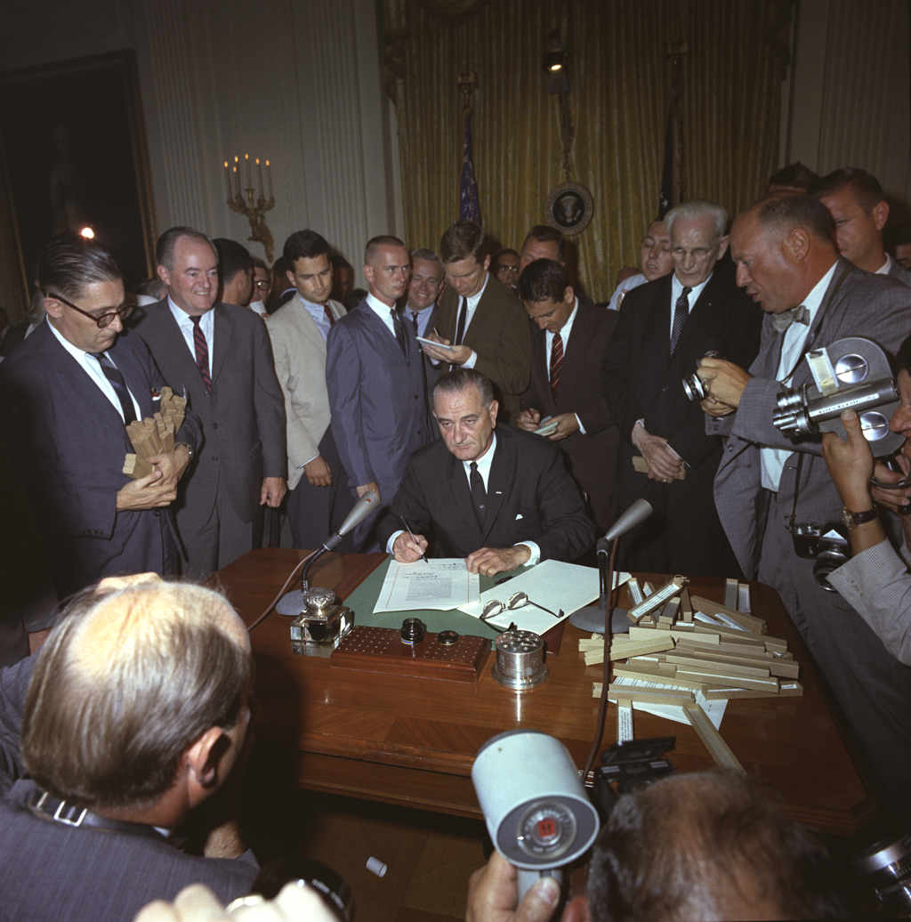 President Lyndon B. Johnson signs the Civil Rights Act of 1964 while others look on